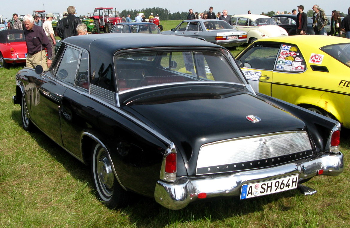 1963 Studebaker GT Hawk at vintage vehicle & airplane show at Jesenwang (Bavaria)